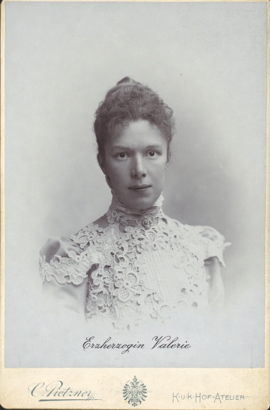 Archduchesse Maria Valeria of Austria, daughter of Emperor Franz Joseph + Empress Elisabeth. Photo made around 1890